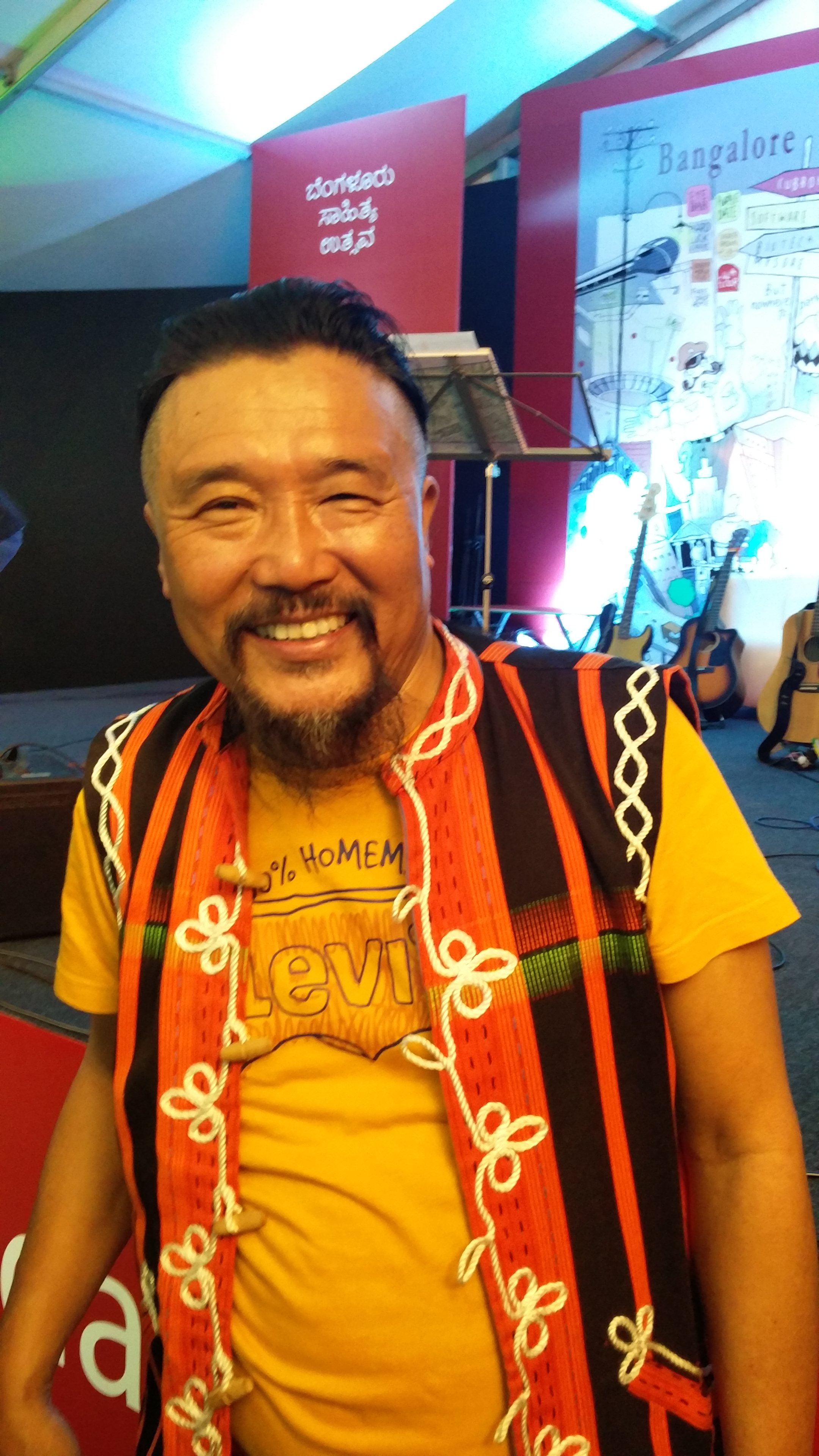 Closeup of Rewben Mashangva at Bangalore Literature Festival, 2016 immediately after his performance.